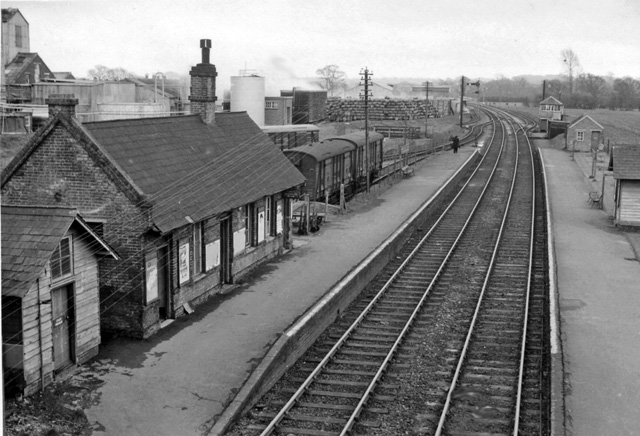 Bailey Gate Station View SE, towards Bournemouth (Somerset & Dorset main line). Line and station closed March 1966.